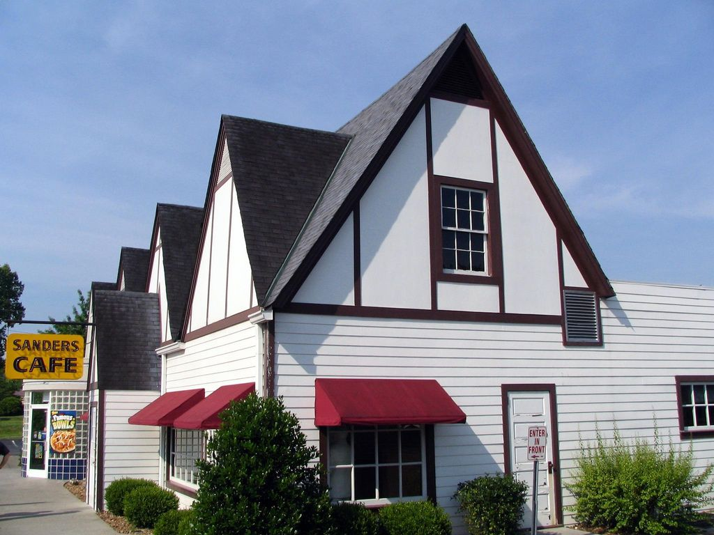 Sanders Cafe, the original KFC, then known as Harland Sanders Cafe is located on Highway US 31E in Corbin Ky.